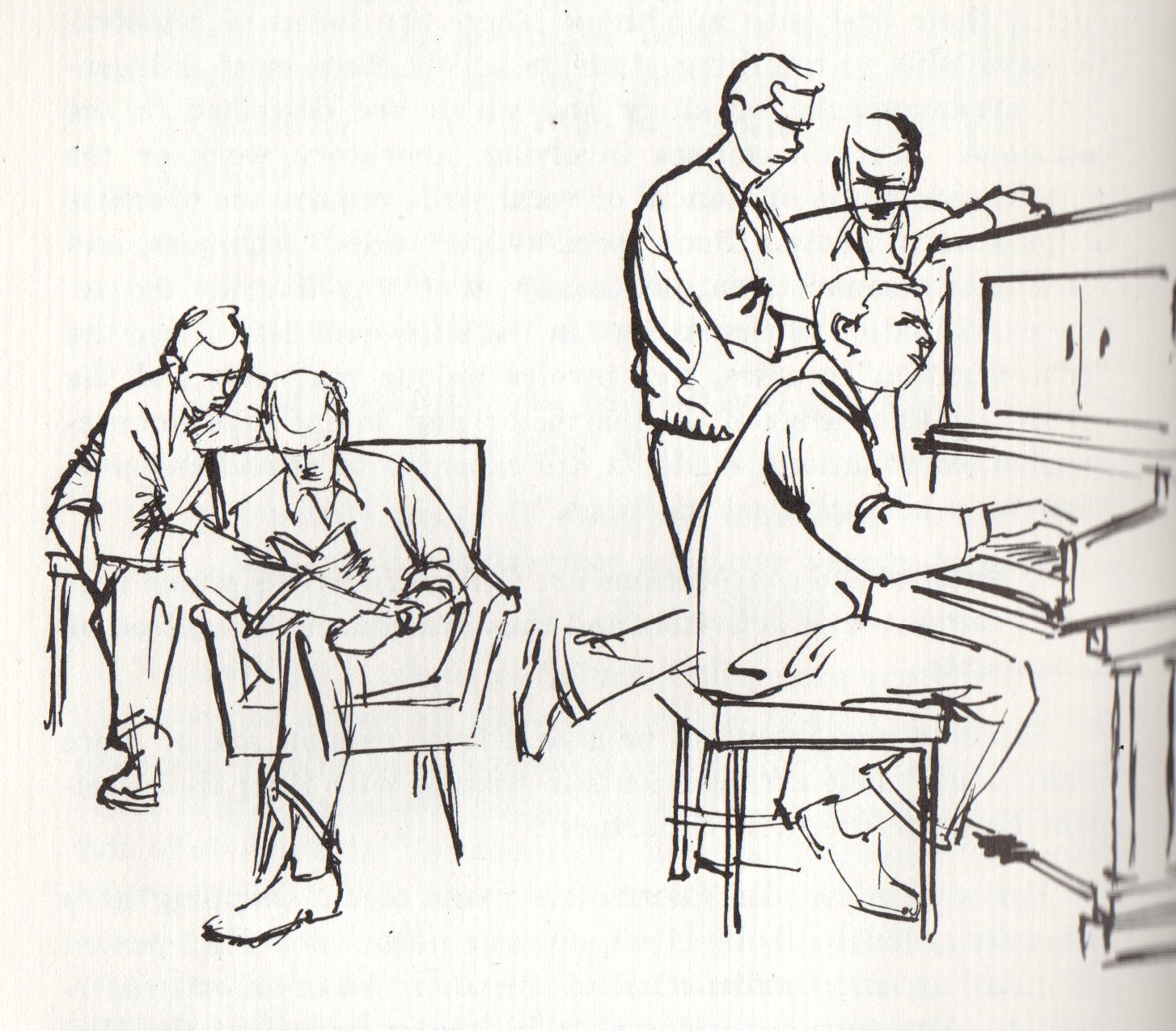 Line drawing of students engaging in typical student activities (reading, playing the piano and talking), from the 1960 Shimer College student handbook. Published without copyright notice, and also included in school's 1979 dedication of the literary rights to the Shimer College Collection to the public domain.